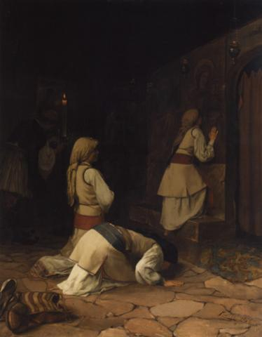 Praying in Greek Church, Monparnasse